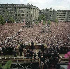 President John F. Kennedy (at lectern in foreground, back to camera) delivers remarks before a crowd gathered at Rudolph Wilde Platz in West Berlin, West Germany (Federal Republic). President Kennedy delivered his speech from a platform erected on the steps of West Berlin’s city hall, Rathaus Schöneberg. Chancellor of West Germany, Konrad Adenauer, and interpreter for the German Foreign Ministry, Heinz Weber, stand right of the President; Mayor of West Berlin, Willy Brandt, stands left of the President. Also pictured: the President’s sister-in-law, Princess Lee Radziwill of Poland; Special Assistant to the President for National Security, McGeorge Bundy; U.S. Chief of Protocol, Angier Biddle Duke; West German Ambassador to the United States, Karl Heinrich Knappstein; French Commandant in Berlin, Major General Edouard Toulouse; U.S. Secretary of State, Dean Rusk; Federal Minister of Economic Cooperation and Development of Germany, Walter Scheel.